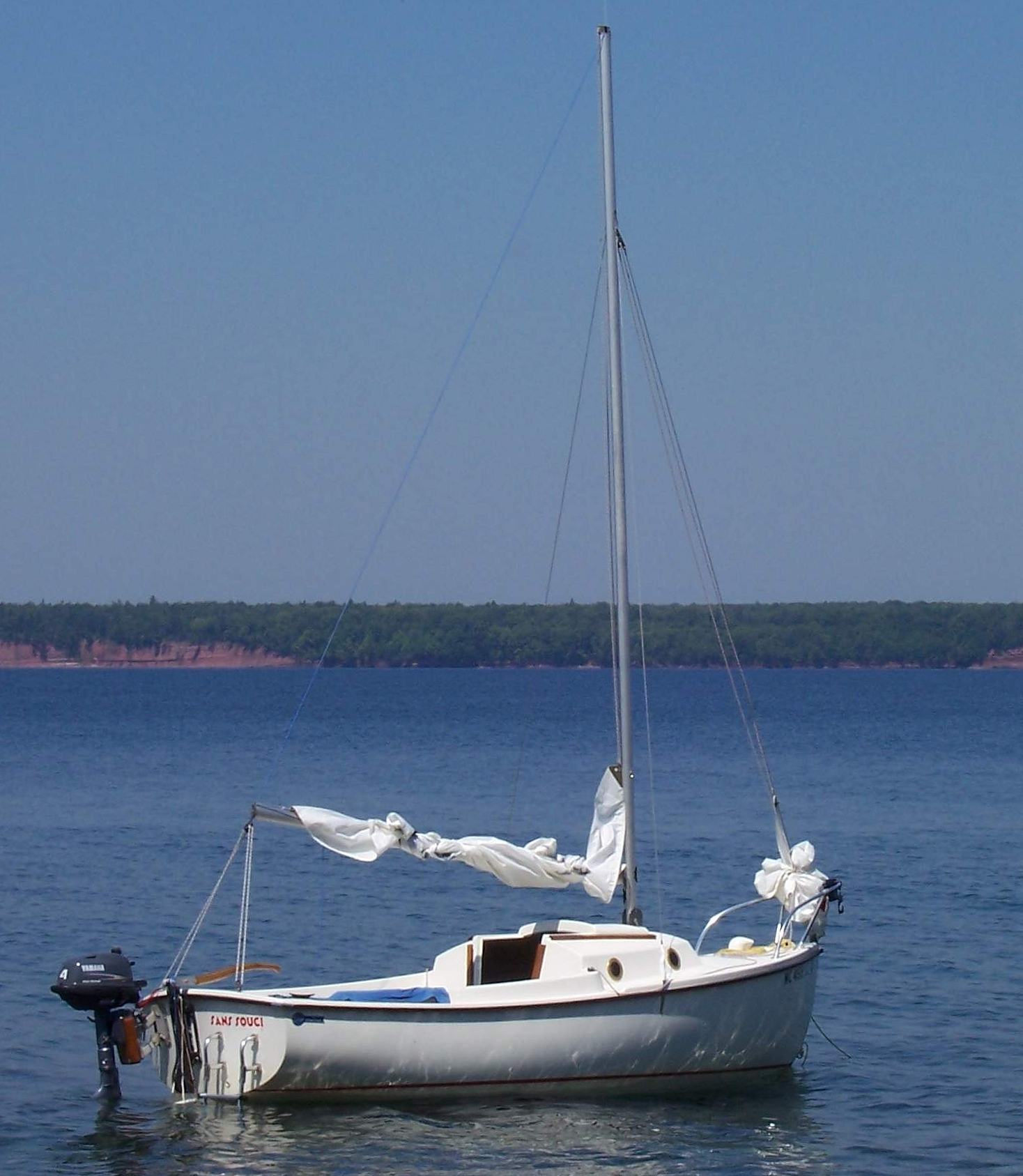 1977 Com-pac Sailboat